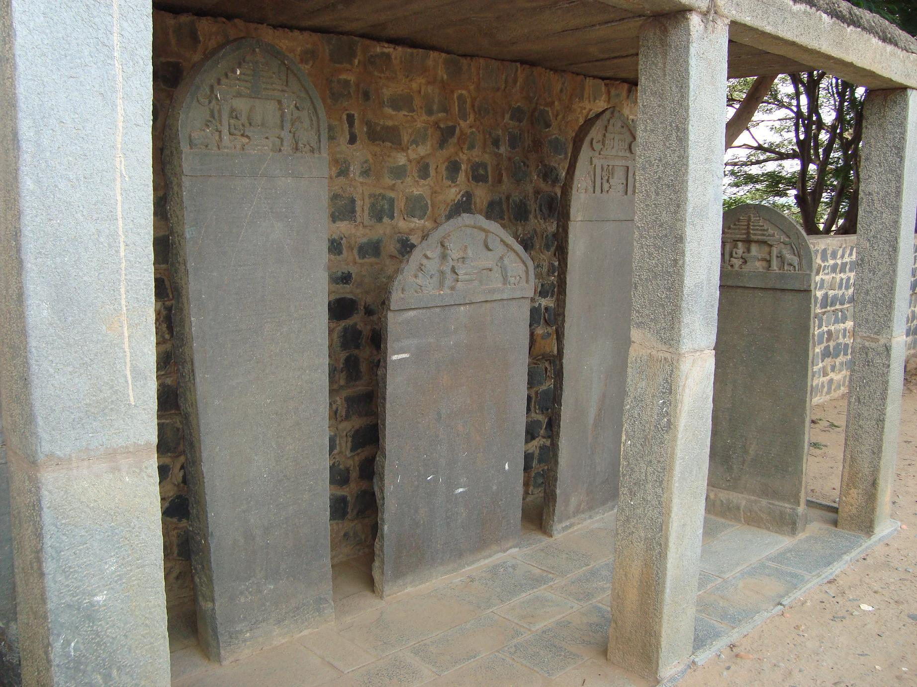 Chaudayyadanapura Mukteshwara temple, Haveri District, North Karnataka, India Source and Author : Manjunath Doddamani, Gajendragad / Hubli, Karnataka(India)